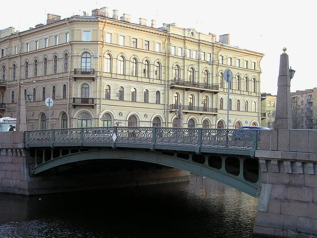 Potseluev Bridge. River Moyka.